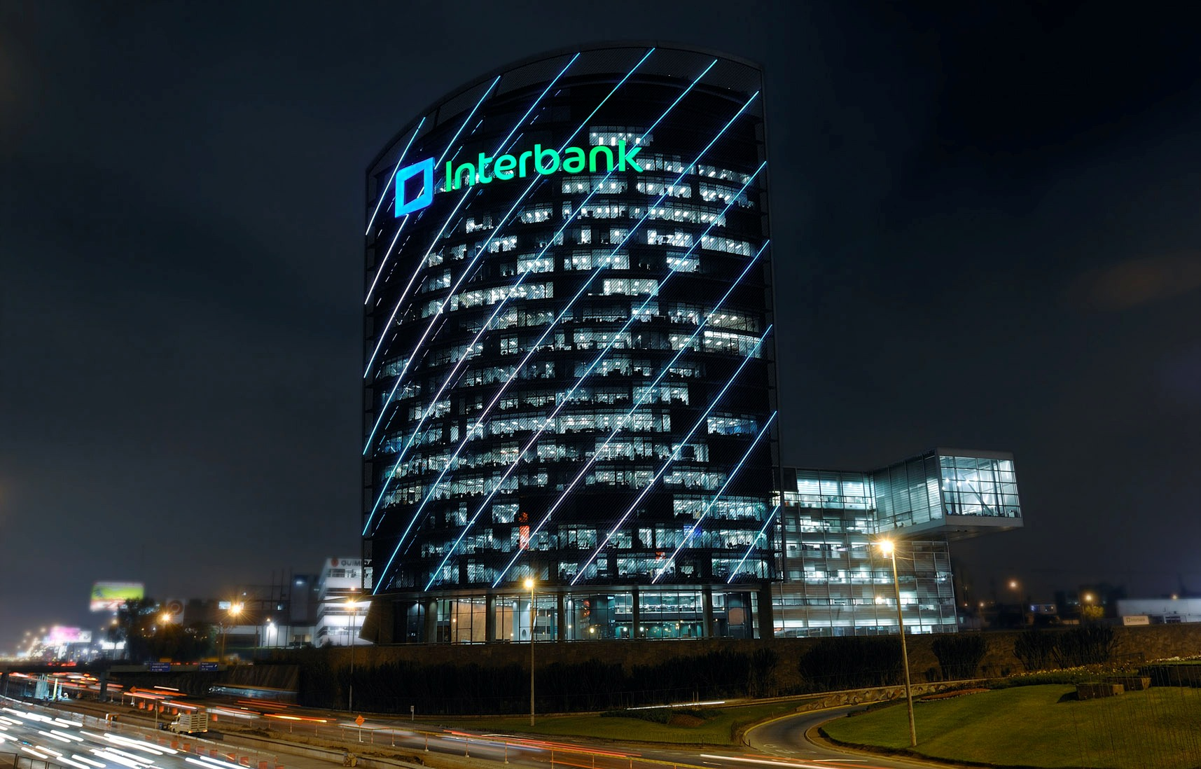 Torre Interbank